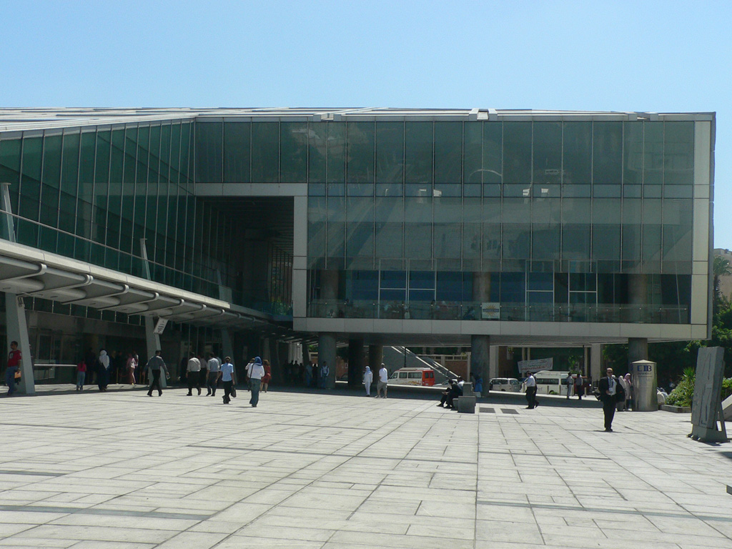 Bibliotheca Alexandrina entrance plaza